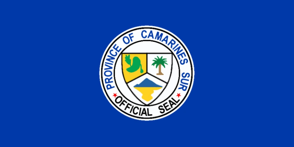 Provincial flag of Camarines Sur